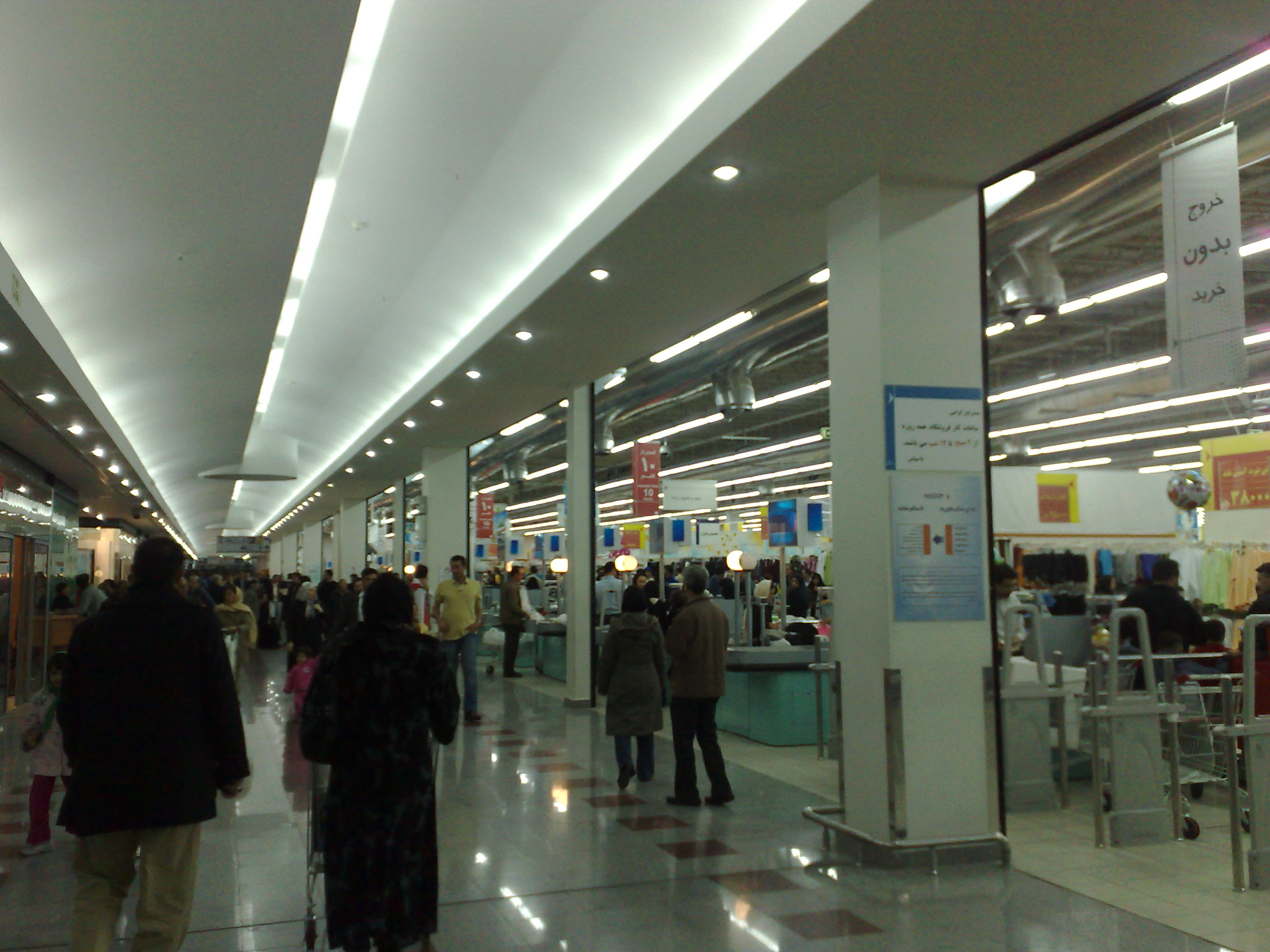 Hyperstar hypermarket by Carrefour & Majid Al Futtaim, Western Tehran, internal view